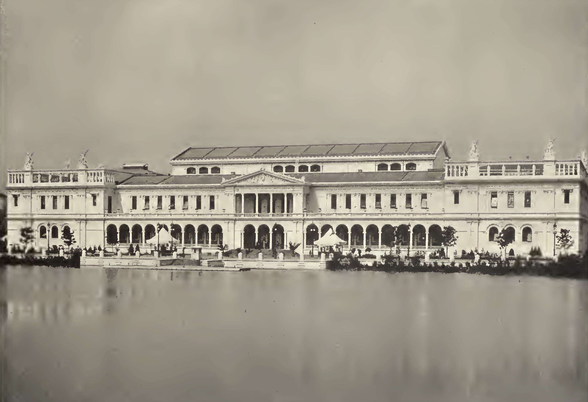 Woman's Building. World's Columbian Exposition (1892 : Chicago, Ill.).